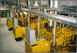 IC engines